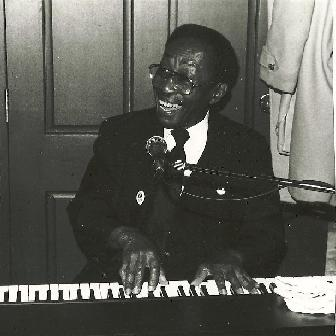 Amaerican blues singer, pianist and songwriter James Crutchfield in St. Louis